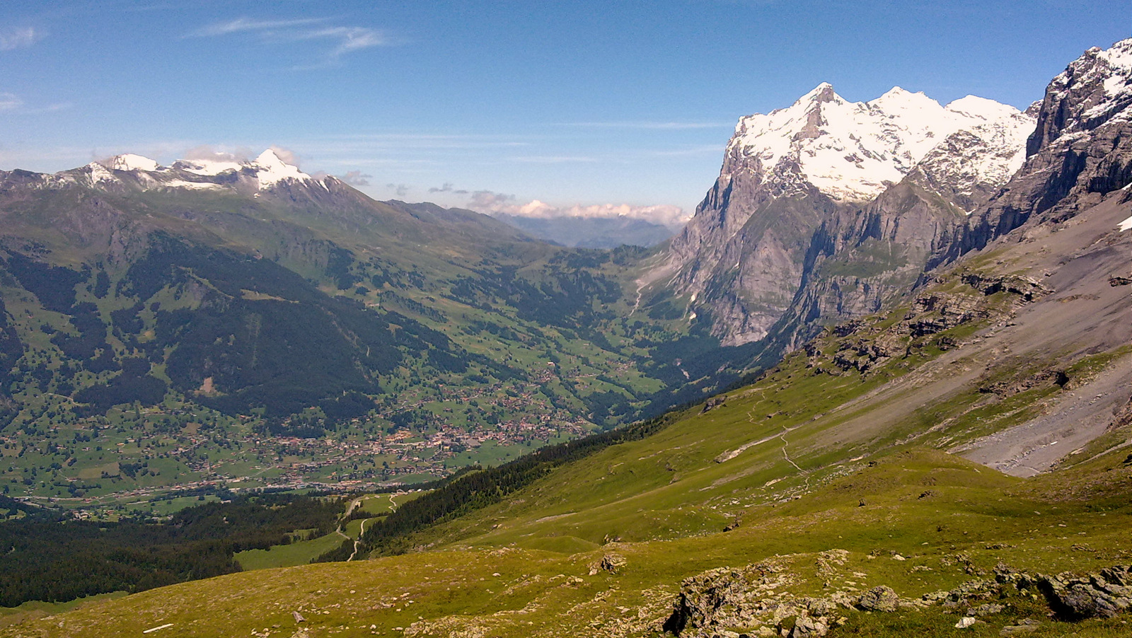 View of Grindelwald, Switzerland, and the Wetterhorn massif to the right rises above the valley settlements. Photographed from below Kleine Scheidegg to the northeast.